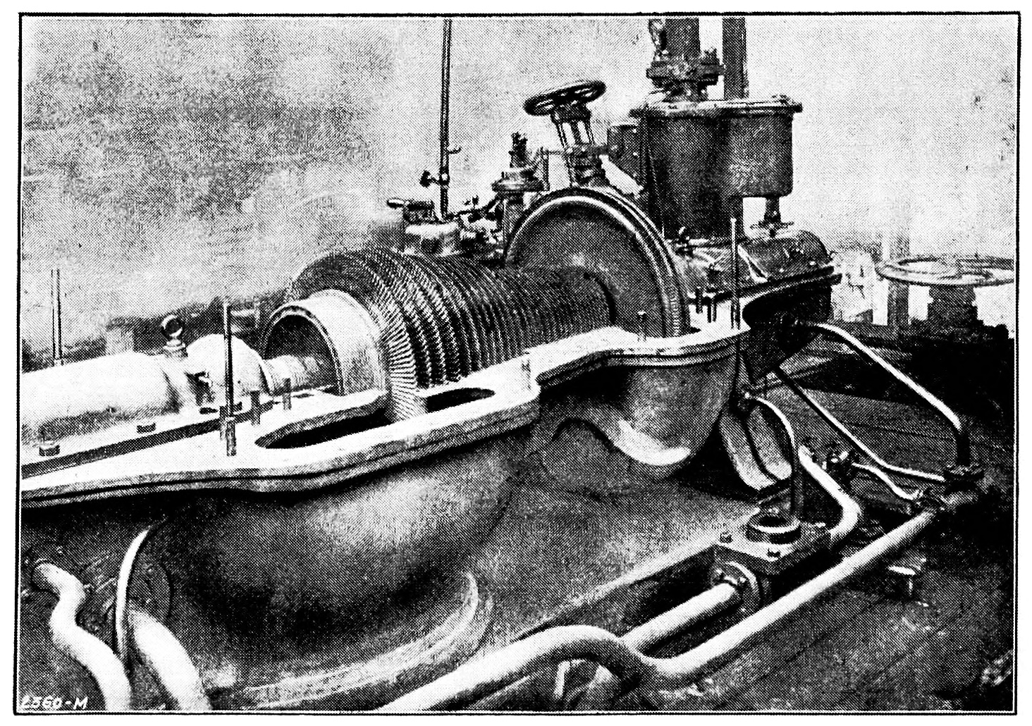 The Steam Turbine, the 1911 Rede Lecture: Figure 29: "Parson's Combined Impulse-Reaction Turbine".